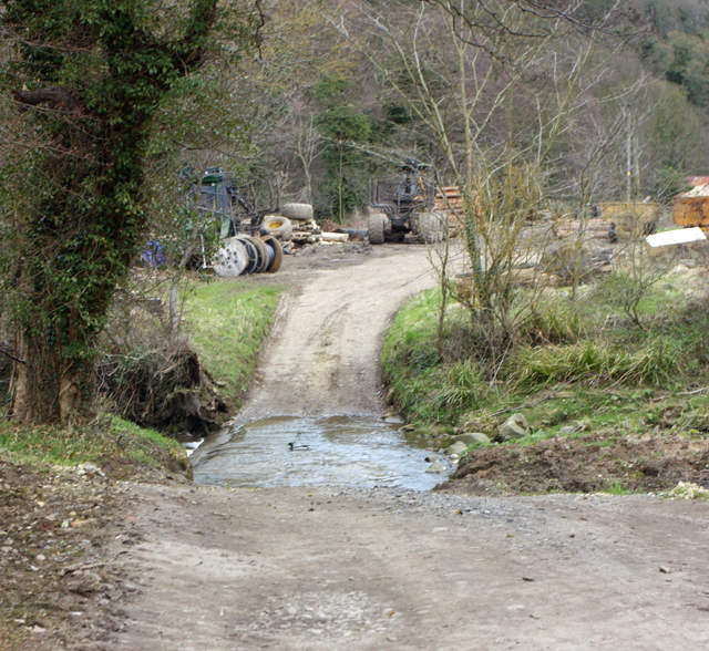 A ford in Mulgrave woods Beyond the ford can be seen the mess of the management yard for the wood. Keywords: Ford, equipment.